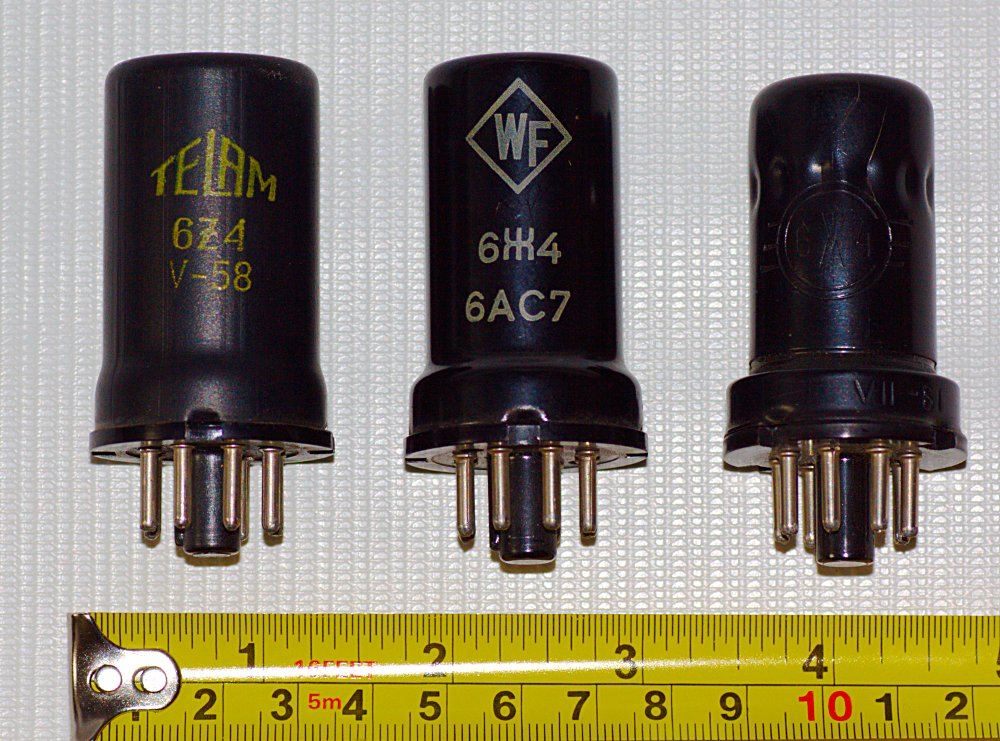 Pentode 6Ż4 (equiv. 6AC7, PL-left, DDR-middle, USSR-right)